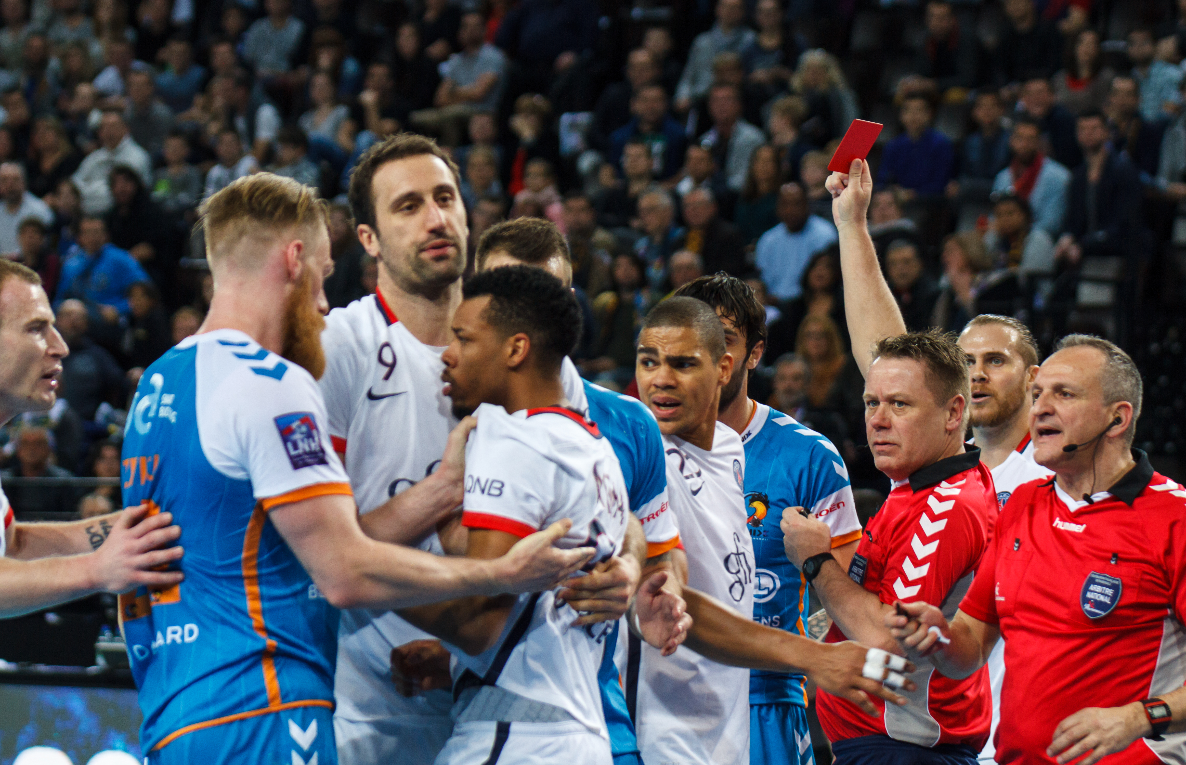 Semi-finale of the Handball League Cup, between Fenix Toulouse and PSG: referee Denis Reibel award a red card to Rémi Clavel.